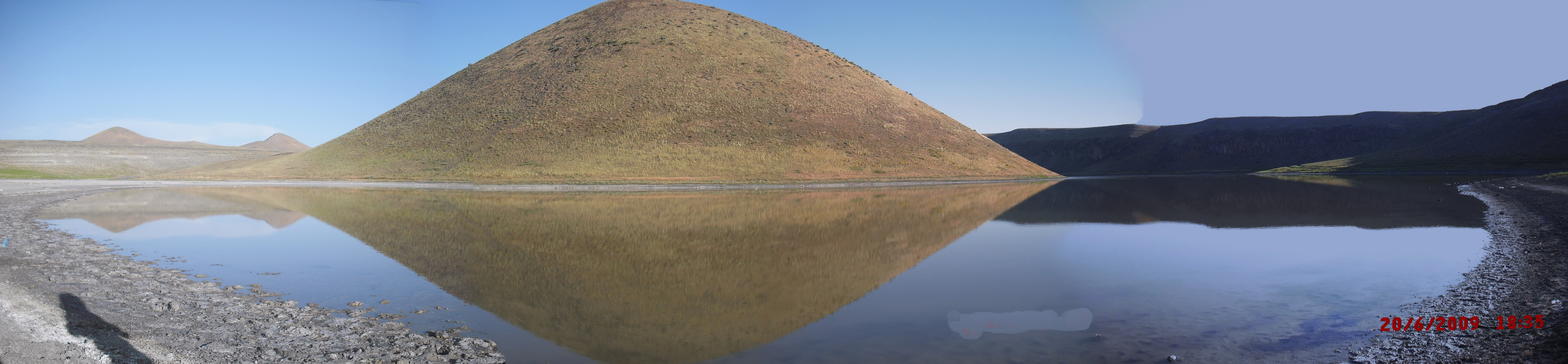 Panorama of Lake Meke (crater lake) around a cinder cone — in the Karapinar volcanic field, Konya Province, central Anatolia.